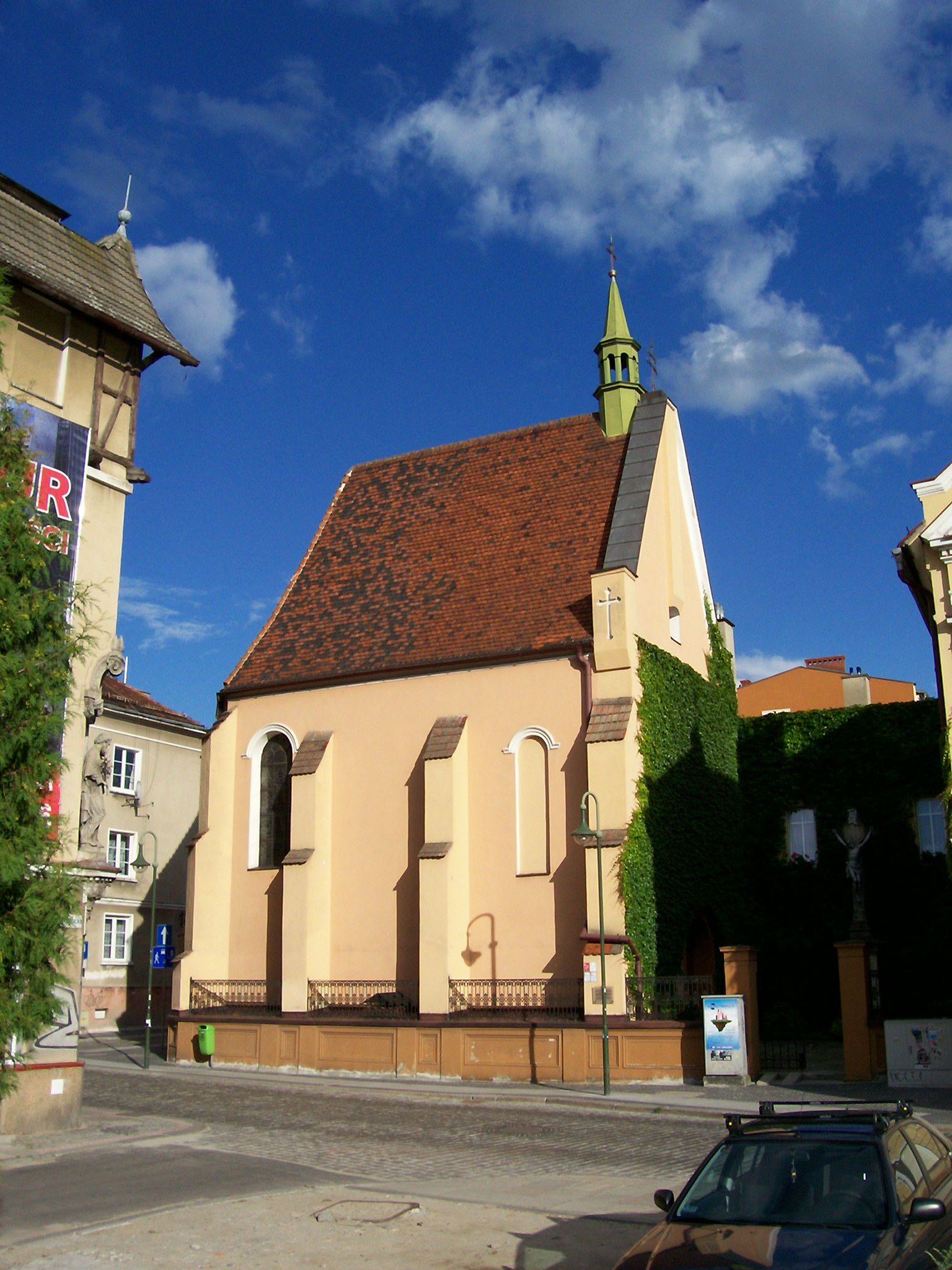 The church of Saint Alexius (Alexius of Rome) in Opole, Poland